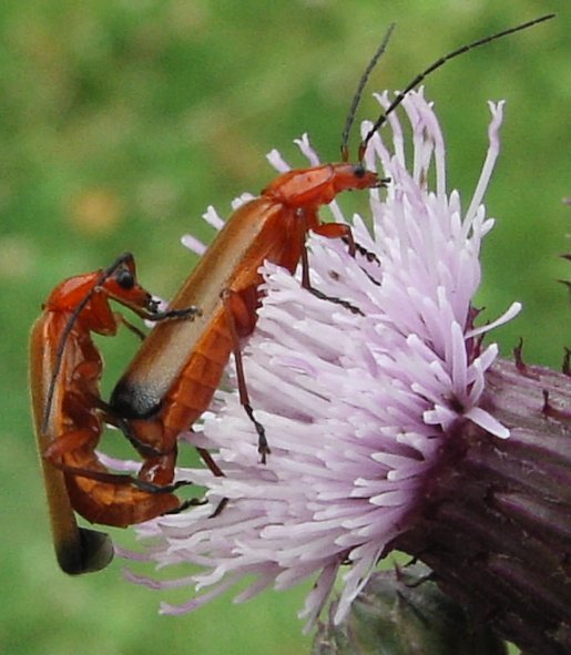 Two Common Red Soldier Beetle (Rhagonycha fulva) mating in Cologne, Germany.